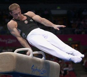 Ivan Ivankov on the pommel horse at the 2000 summer olympic games.